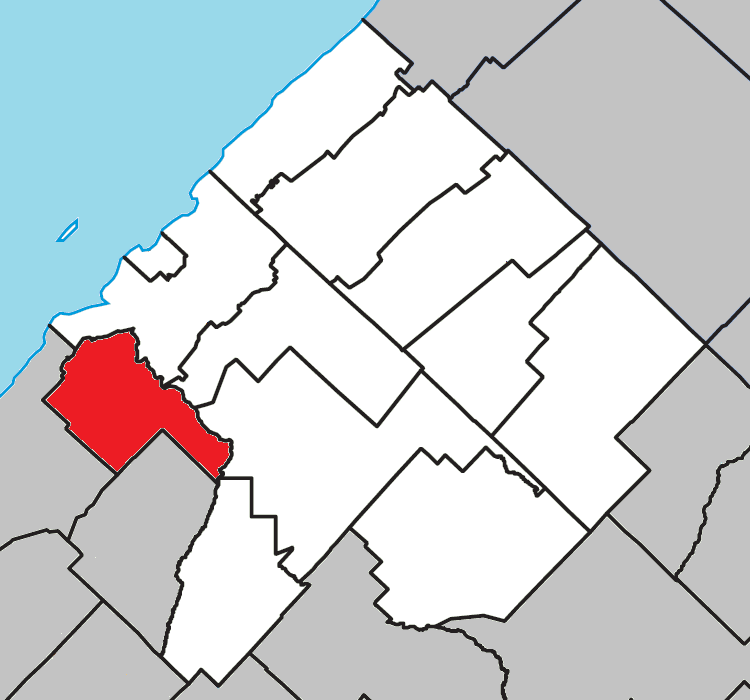 Location of Saint-Éloi, Quebec within Les Basques Regional County Municipality.